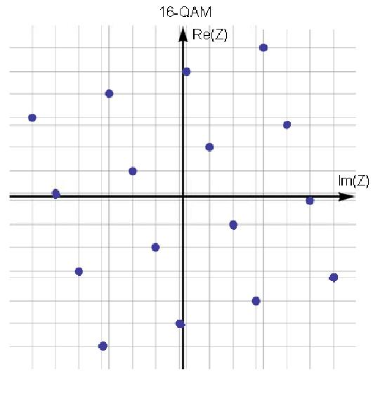 CONSTELLATION MAP